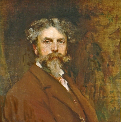 A portrait of British painter William Ewart Lockhart (14 February 1846 – 9 February 1900).